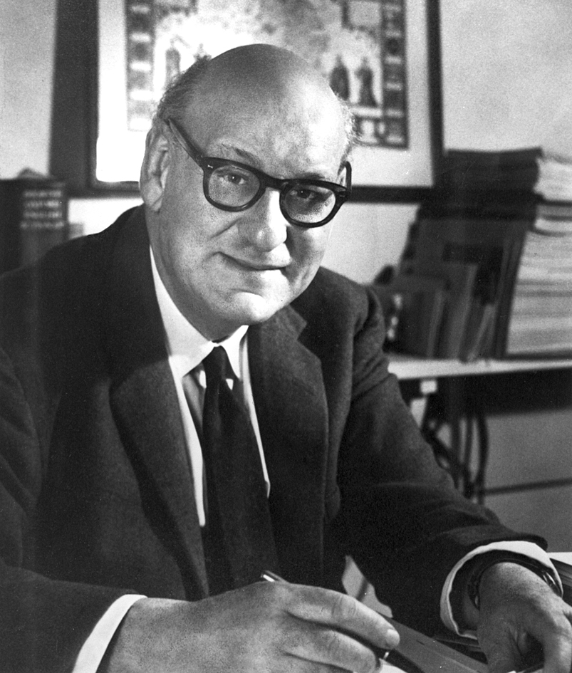 Chief of the CSIRO's Division of Biochemistry and General Nutrition, 1944-1965.Hedley Marston, the leader of the team that discovered a cure for coast disease, a wasting disease of sheep.